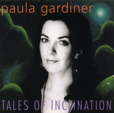 Artwork for the Album Tales Of Inclination by Paula Gardiner